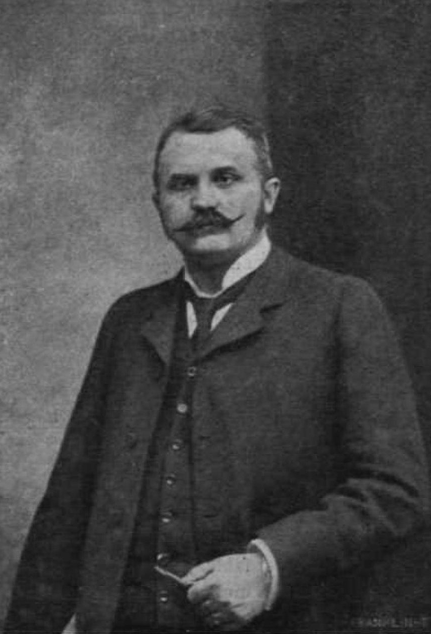 Photograph of the politician János Tóth